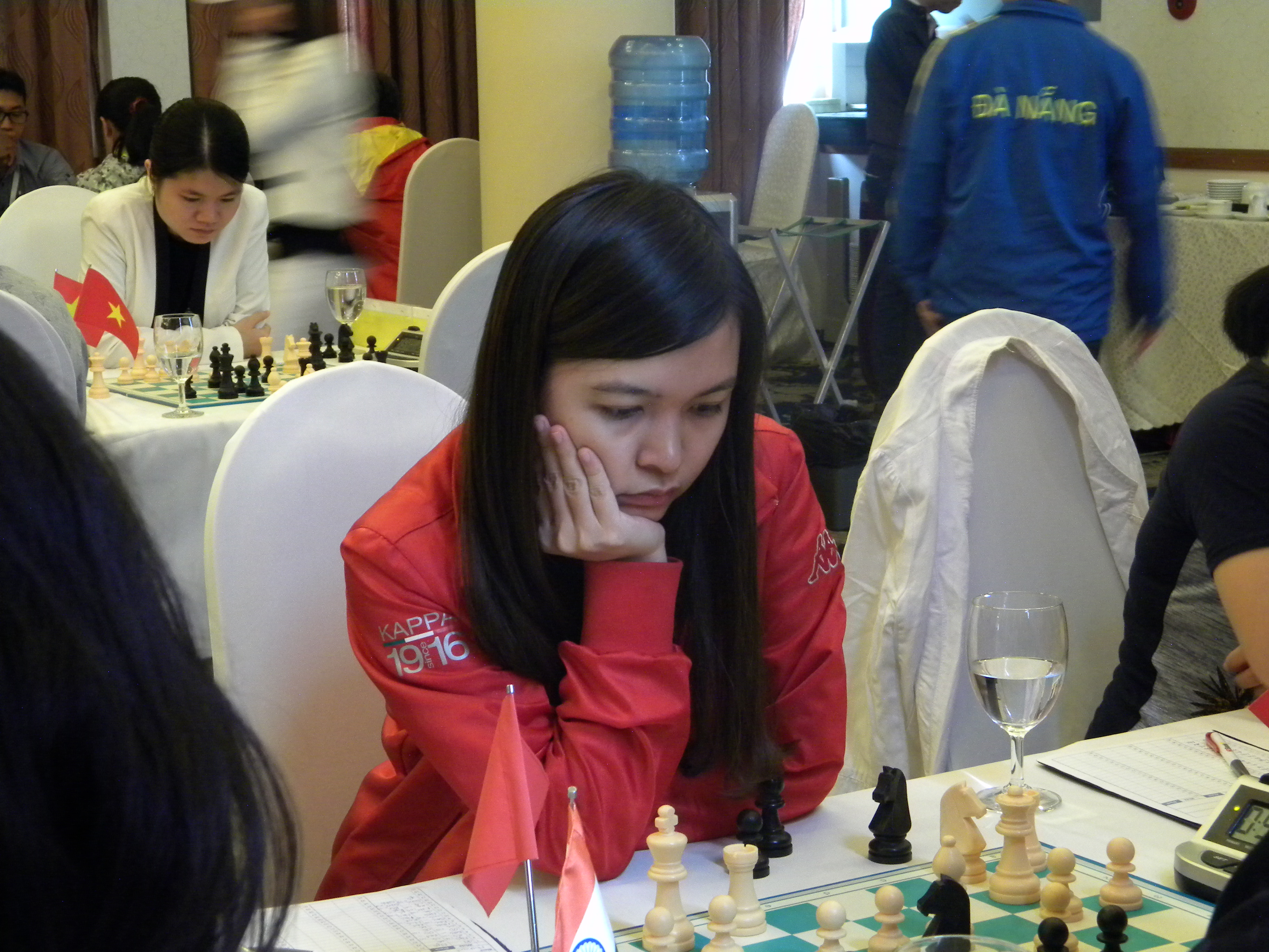 Nguyen Thi Mai Hung in round 3, HDBank chess tournament 2017